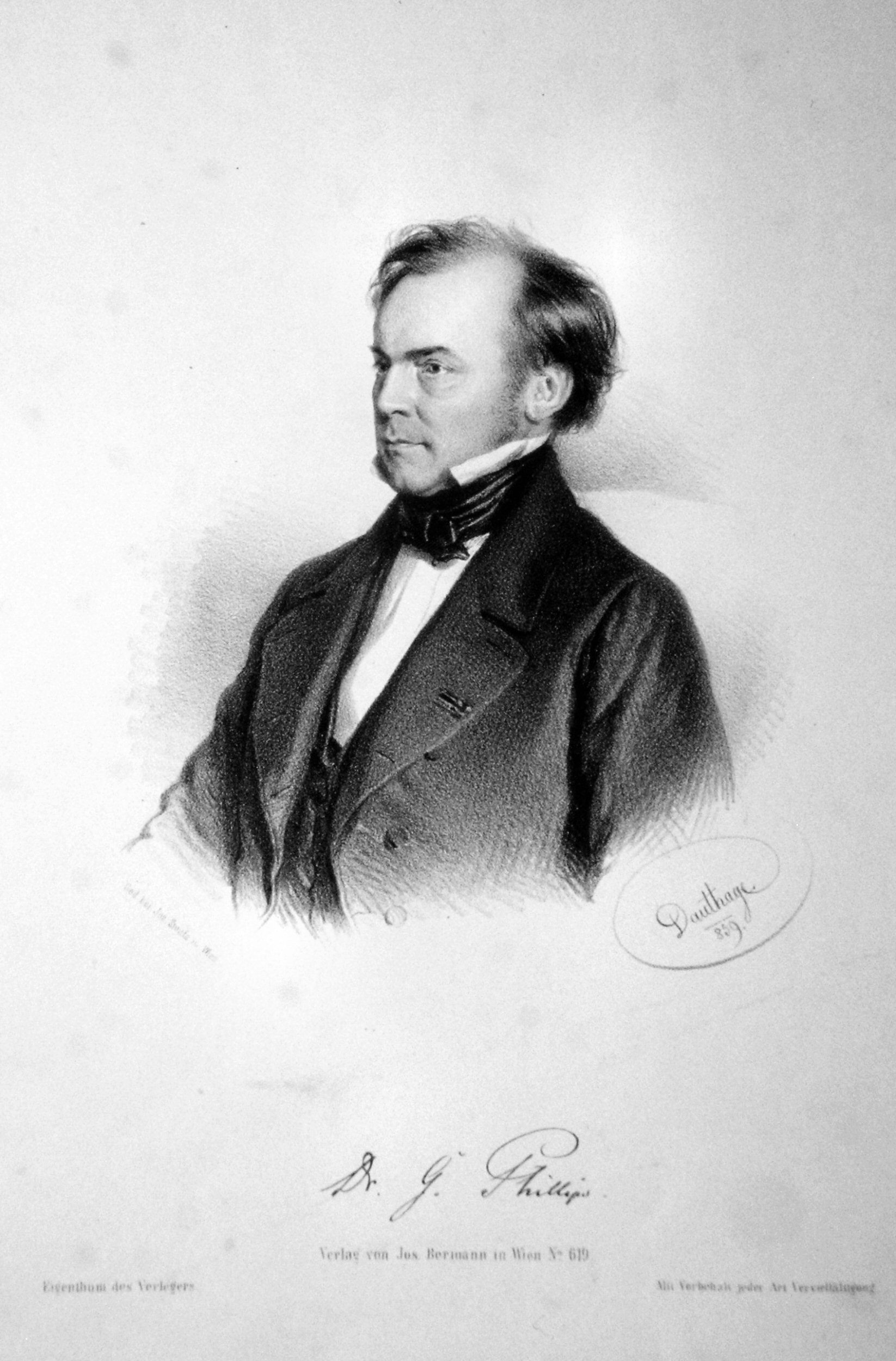 Georg Phillips (1804-1872), historian Lithograph by Adolf Dauthage, 1859